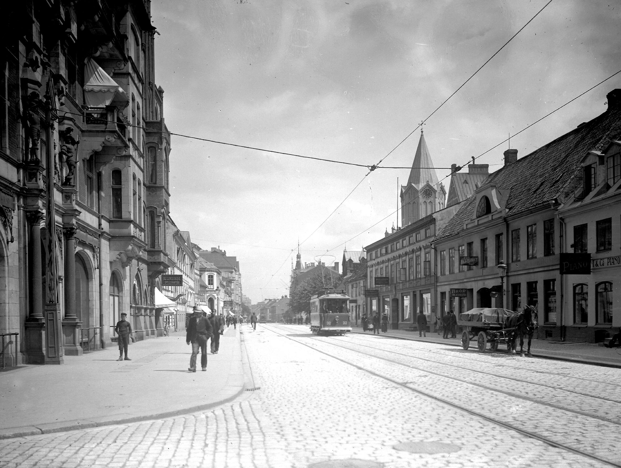 East street in Malmo ca 1910